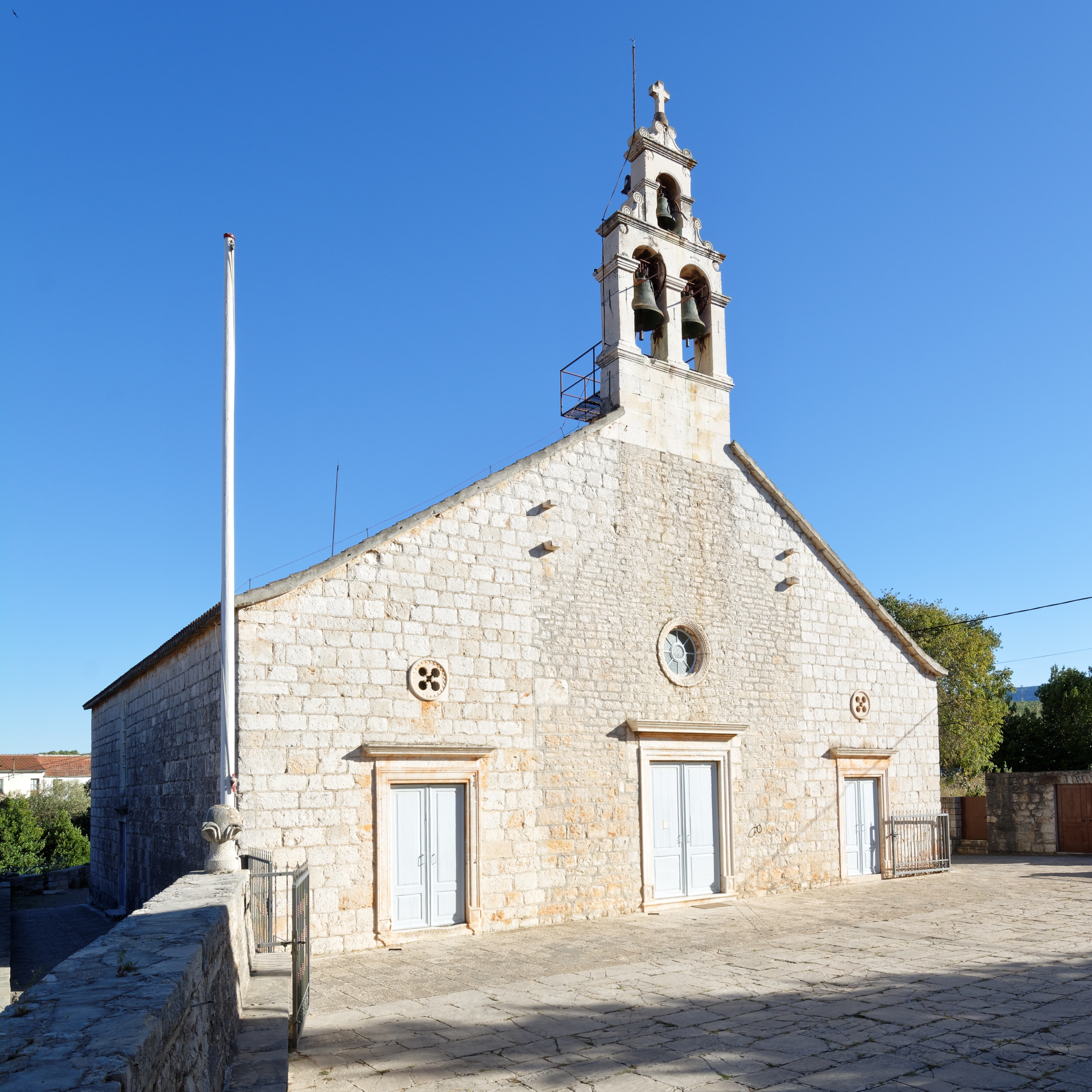 Church of St. Lovre, Vrboska, Hvar island, Croatia.